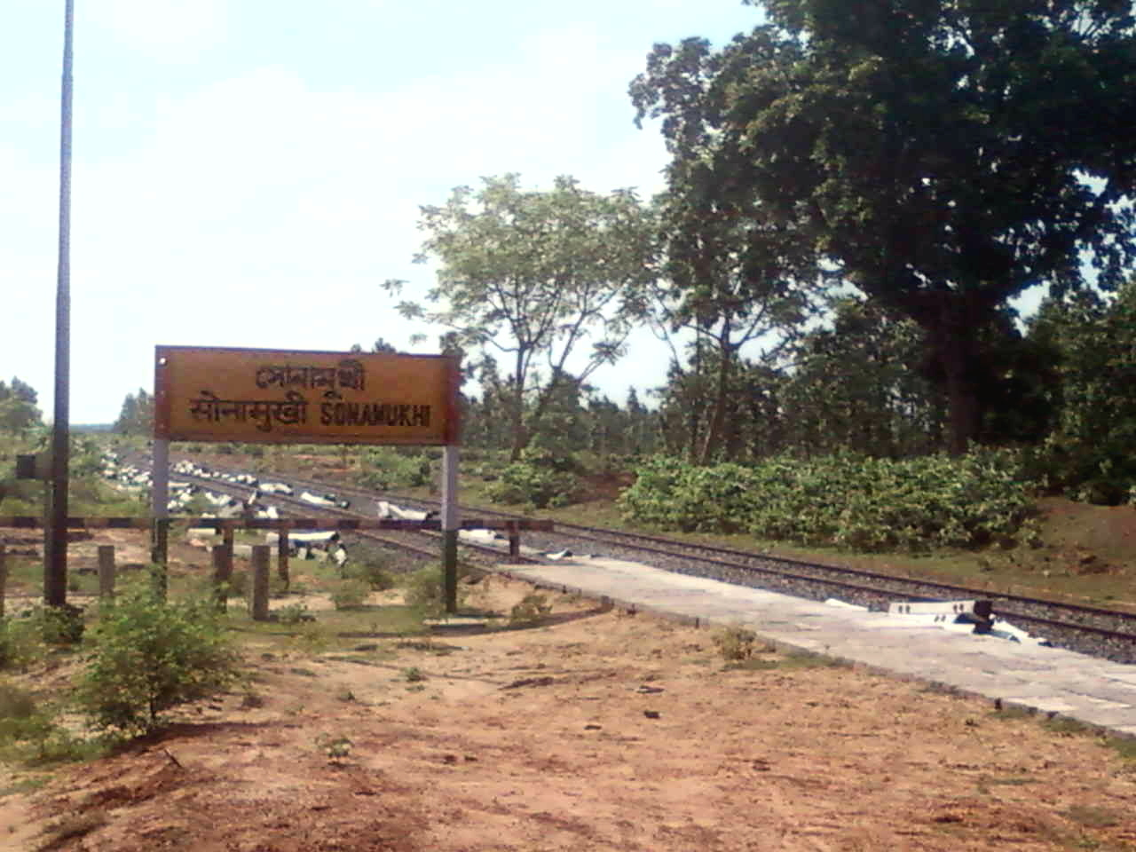 Sonamukhi railway station in previous BDR line, presently Bankura–Masagram line of West Bengal